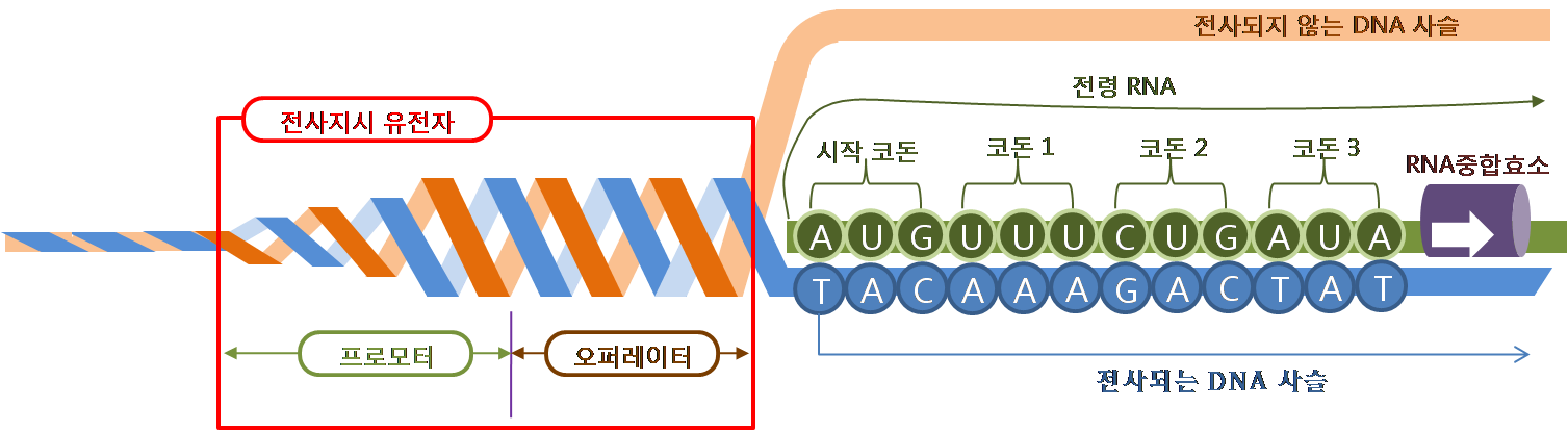 This image explain the genetic Transcription in Korean